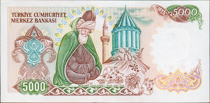 5000 TL